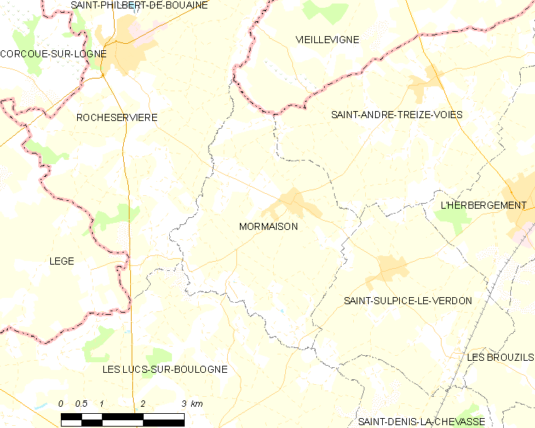 Map of French municipality Mormaison